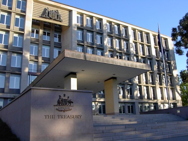 The Treasury Building in Canberra, Australia